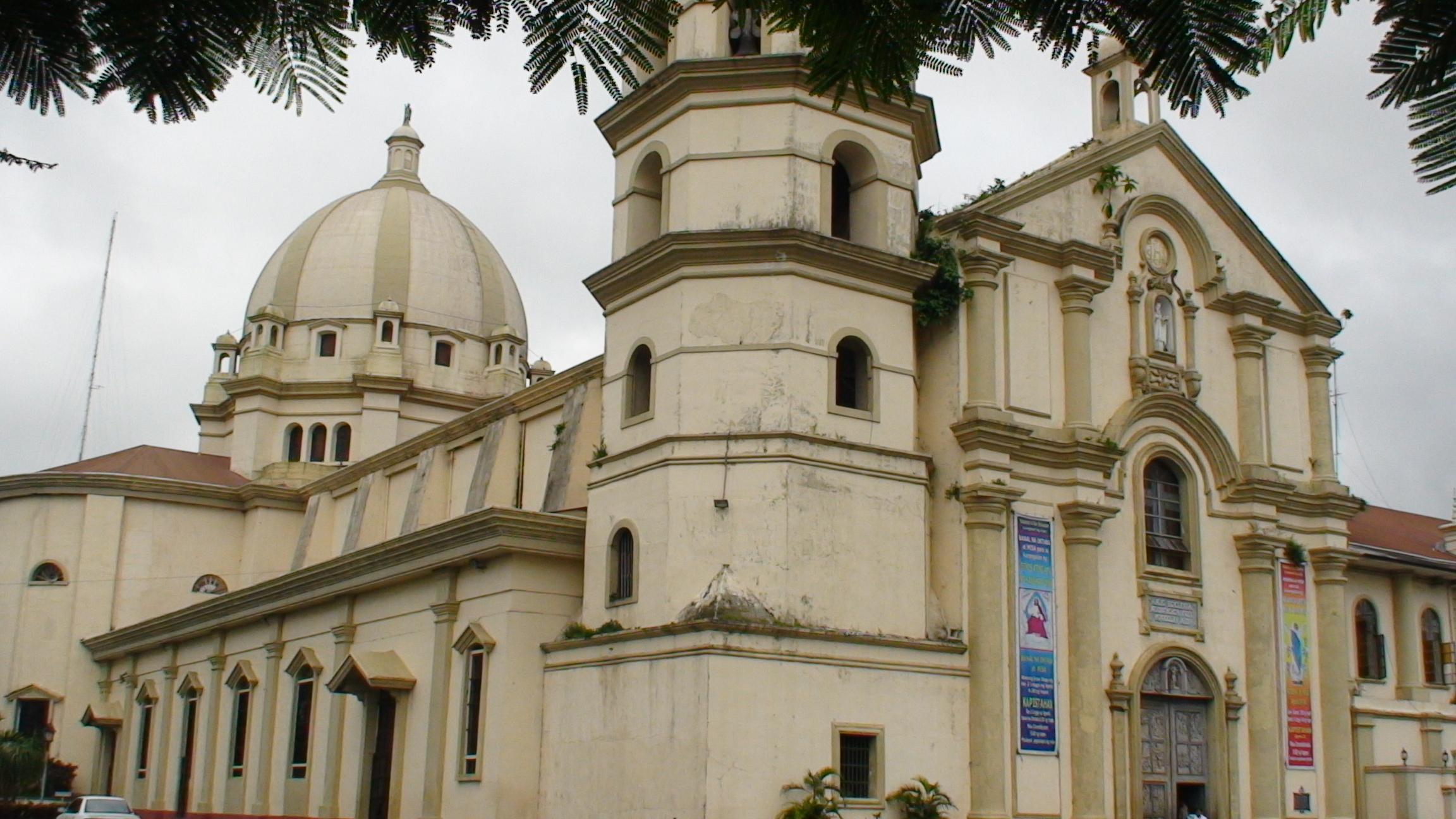 Picture of Katedral ni San Sebastian or Cathedral of St. Sebastian in Lipa City, Batangas, taken August 2006.